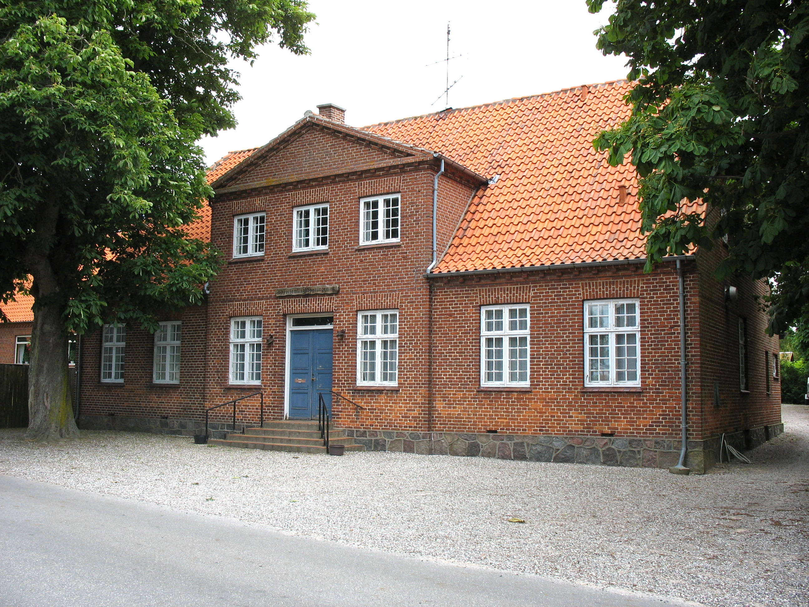 Village hall in the small town "Væggerløse" located on the island Falster in east Denmark.